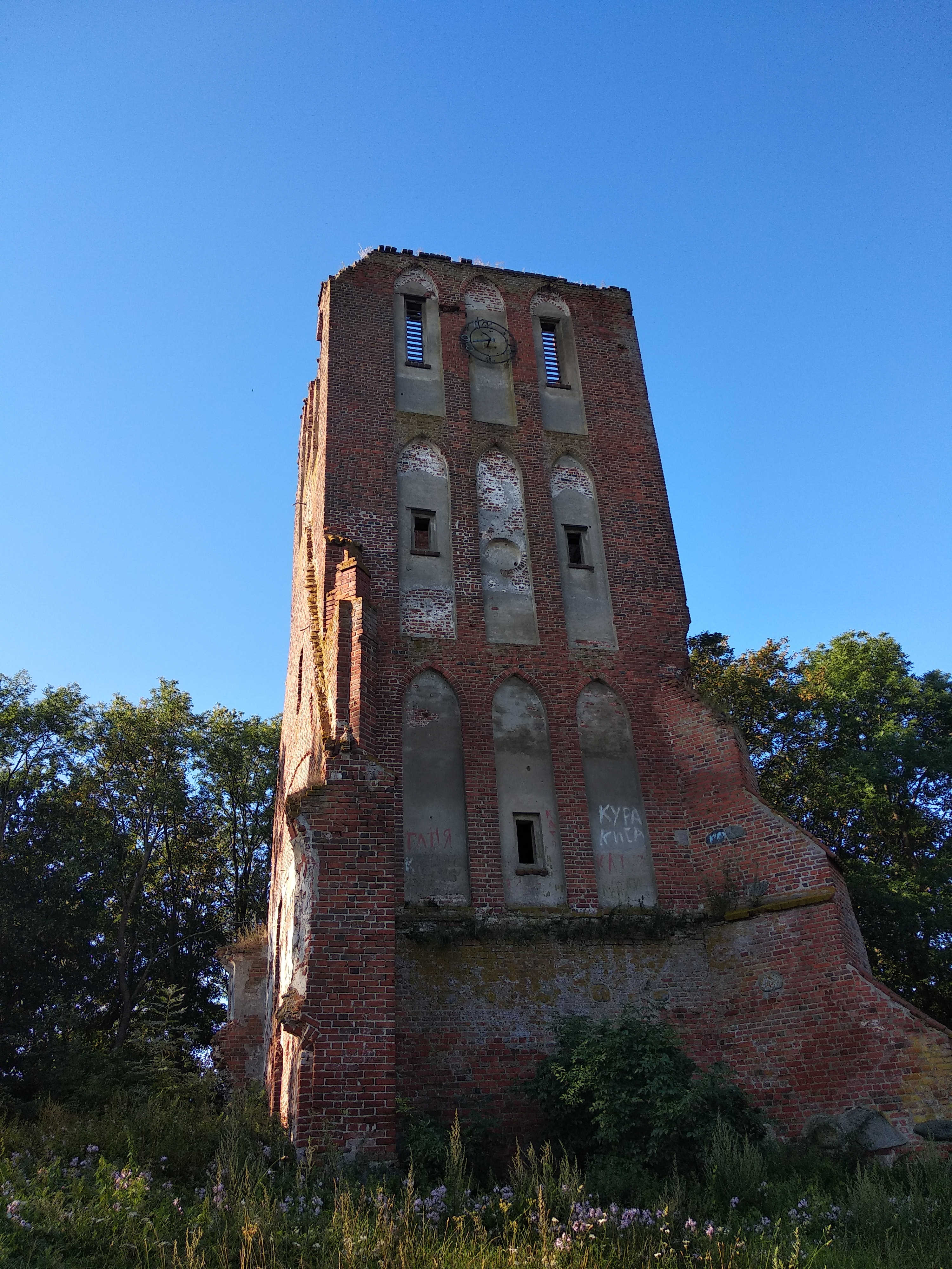 Old church in Ushakovo, Russia